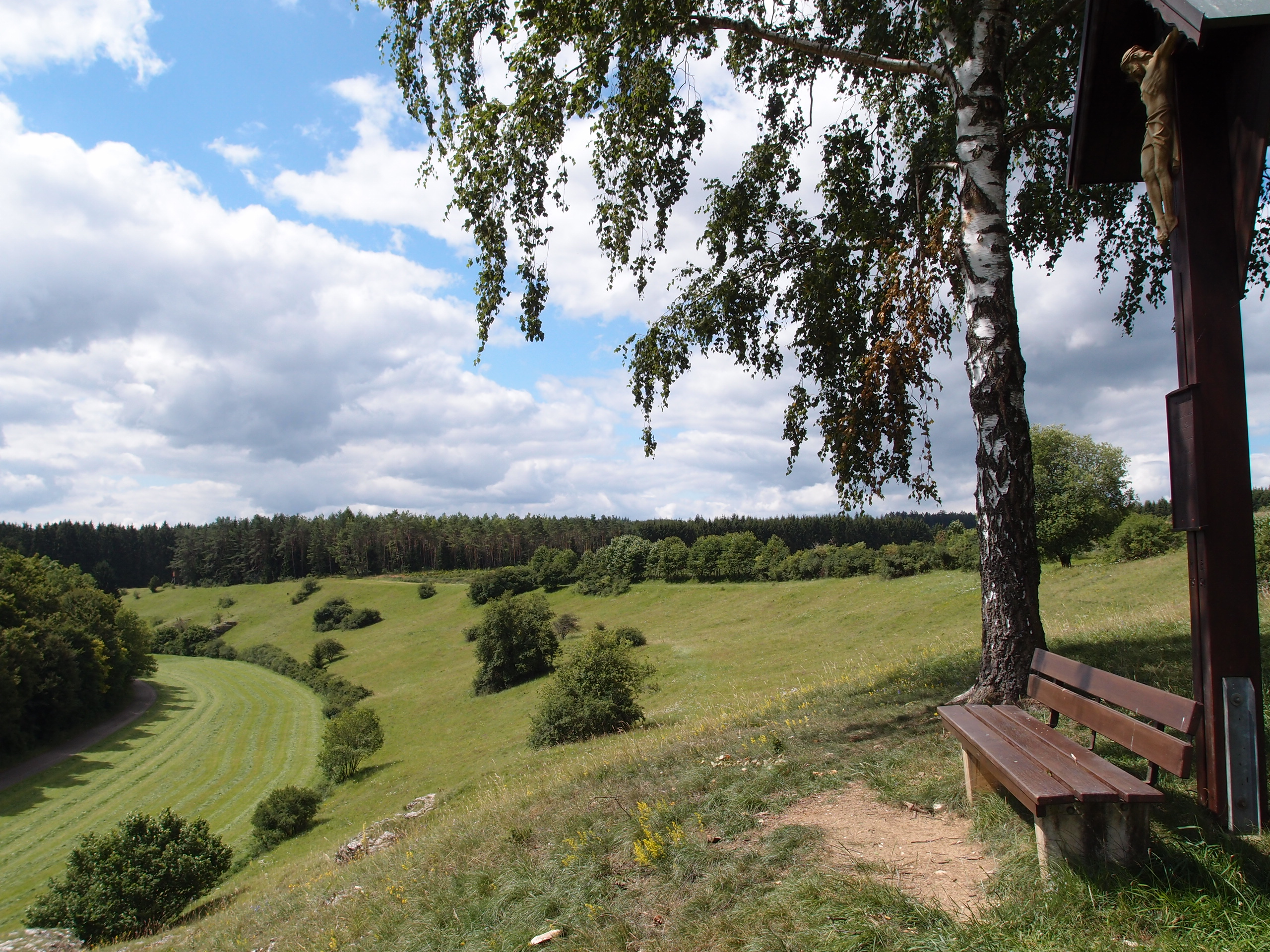 Dossinger Tal Nature Reserve near Dorfmerkingen, Germany